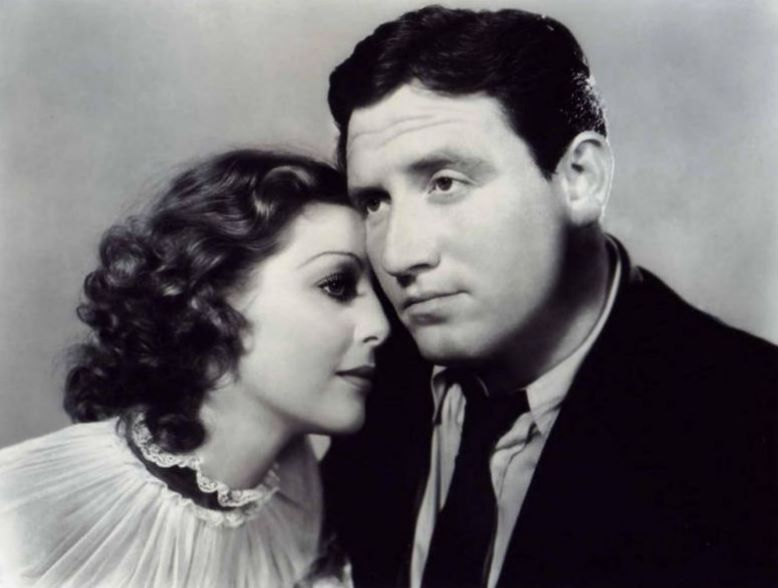 Studio publicity image for the film Man's Castle (1933), featuring Loretta Young and Spencer Tracy. Such images were taken on set during filming, or as part of an organized photo-shoot, by a studio photographer. They were then disseminated to the media and the public to promote the film (see Film still). Public domain explanation It is unlikely that this image was secured with copyright protection, as stated by film induustry expert Gerald Mast in Film Study and the Copyright Law (1989) p. 87: "According to the old copyright act, such production stills were not automatically copyrighted as part of the film and required separate copyrights as photographic stills ... Most studios have never bothered to copyright these stills because they were happy to see them pass into the public domain, to be used by as many people in as many publications as possible." If there is any chance that the photograph was copyrighted, under the terms of the 1909 Copyright Act (which was law until 1978) it would have had to be renewed 28 years after publication, otherwise it entered the public domain. A search for copyright renewal records of 1961 ([1], [2]) reveal no trace that this occurred.